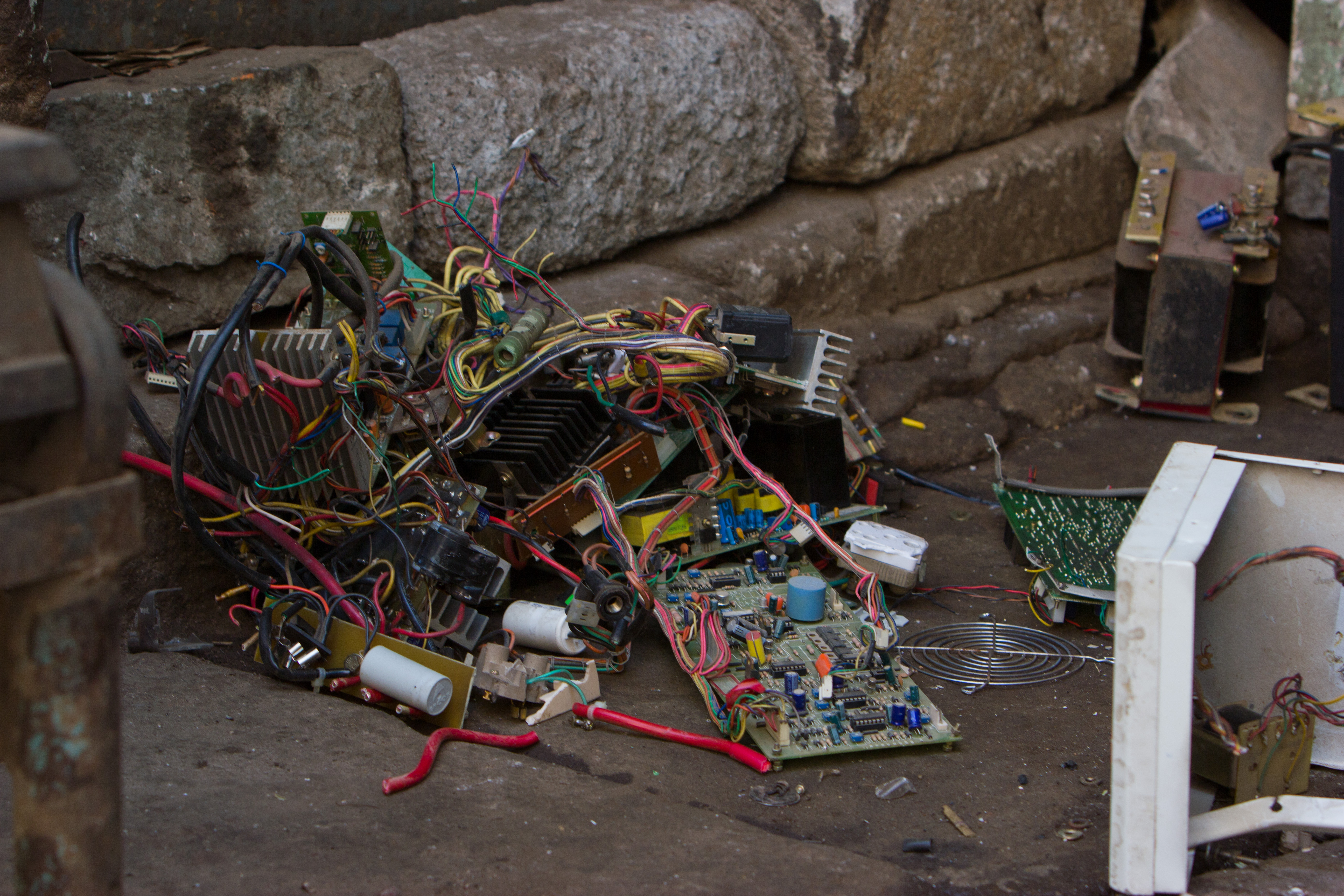 India Bangalore Victor Grigas